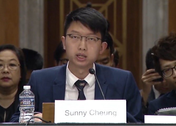 Sunny Cheung, spokesperson for the Hong Kong Higher Education International Affairs Delegation. Smith, China Commission, Witnesses Speak Out on Hong Kong Crisis at Congressional Hearing.